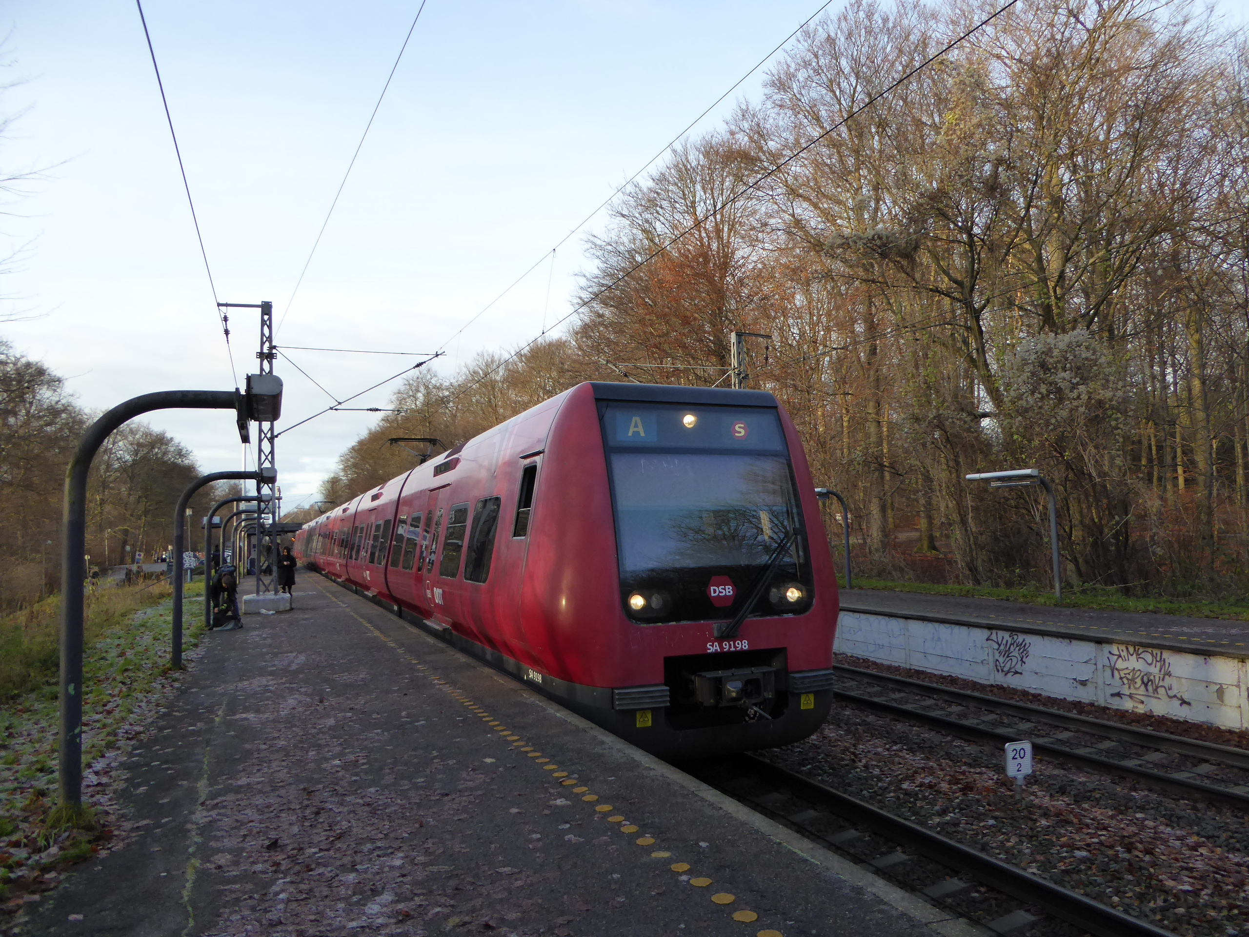 S-train line A at Hareskov Station, a S-train station in Copenhagen.